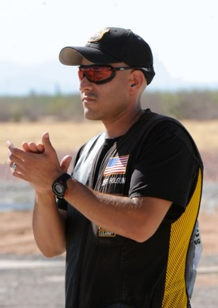 U.S. Army Marksmanship Unit shotgun shooter Sgt. Jeff Holguin is introduced for the double trap finale at the 2012 U.S. Olympic Shotgun Team Trials at the Tucson Trap & Skeet Club in Tucson, Ariz. Holguin finished second. U.S. Army photo by Tim Hipps, IMCOM Public Affairs